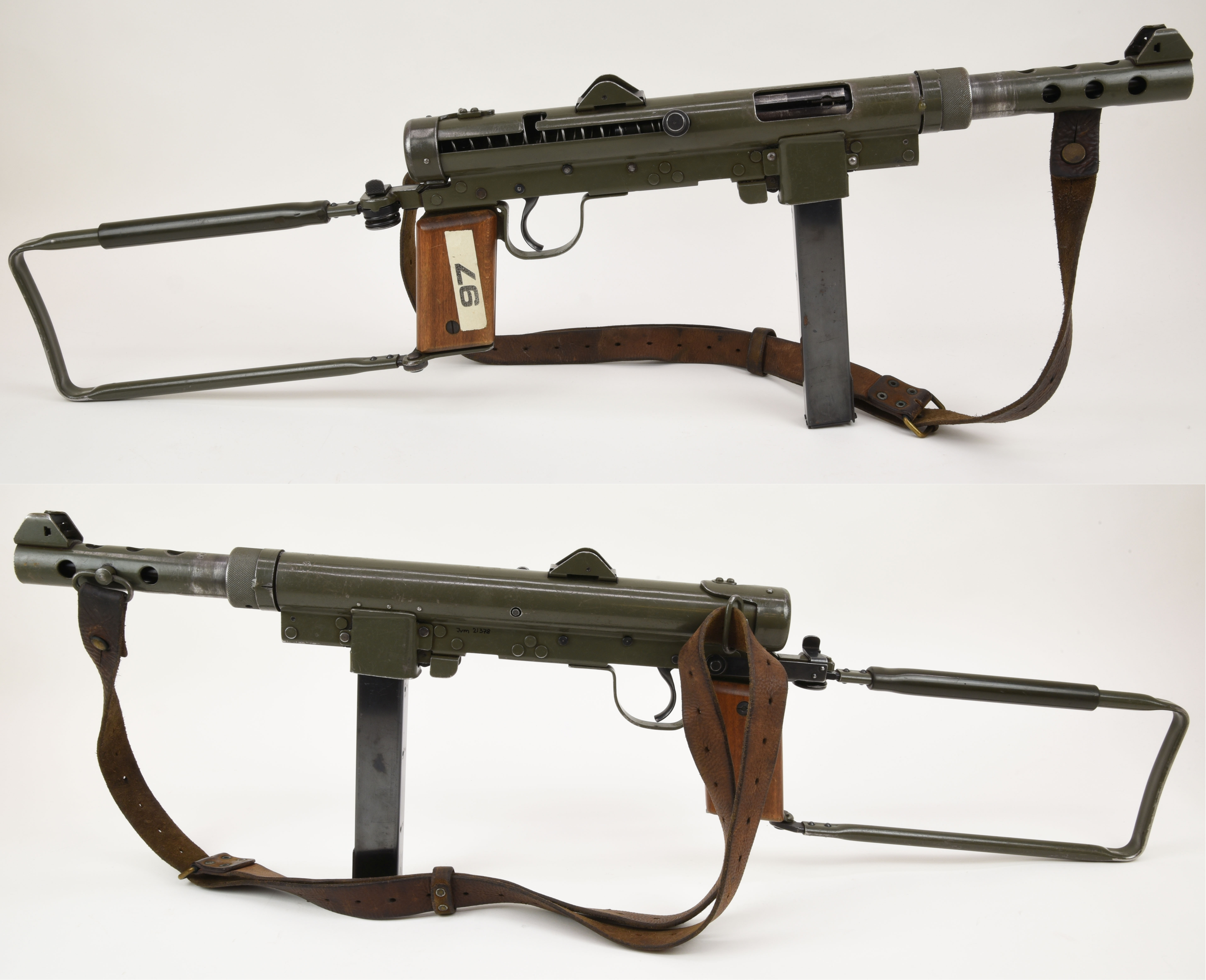 Kulsprutepistol m/45B (Kpist m/45B) 9x19mm, known in English as the Carl Gustaf m/45B submachine gun. This particular gun is painted green. From the collections of the Swedish Railway Museum.